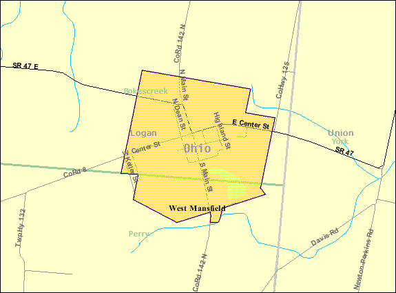 Map of West Mansfield, a village in Logan County, Ohio, United States, with its boundaries at the time of the 2000 census.